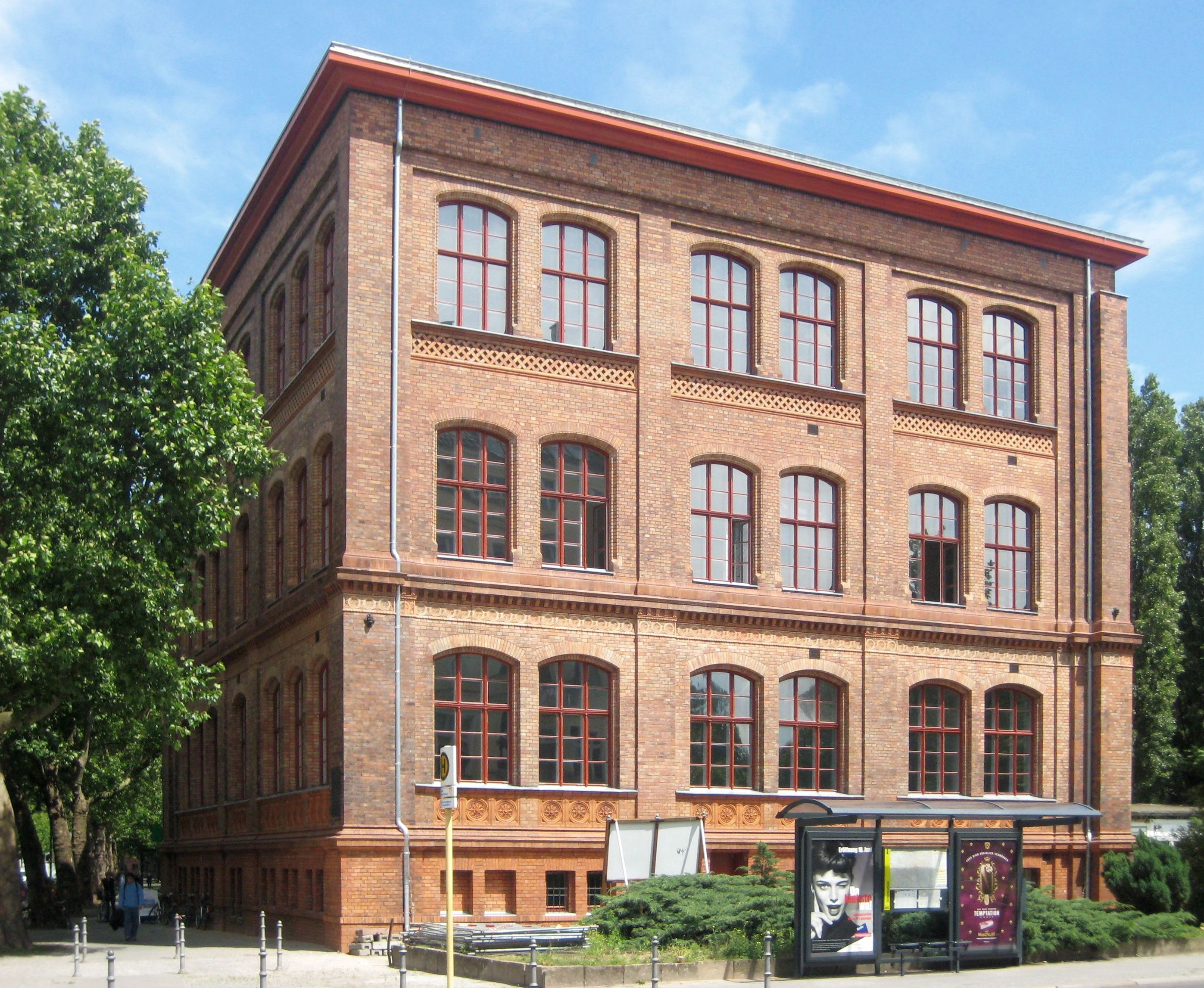 The former Köllnisches Gymnasium (=secondary school) at Wallstraße 42-48, built 1865 by Adolf Gerstenberg, as seen from the corner of Wallstraße and Inselstraße. It used to be a school building with three wings along Inselstraße. After destruction in WWII, only the northern wing along Wallstraße as well as the principal's building, added in 1868 on the same street, are preserved. The buildings are used today by the Music School Fanny Hensel. They have been desiganted as a historic landmark.